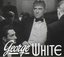 Cropped screenshot of George White from the trailer for the film Rhapsody in Blue.